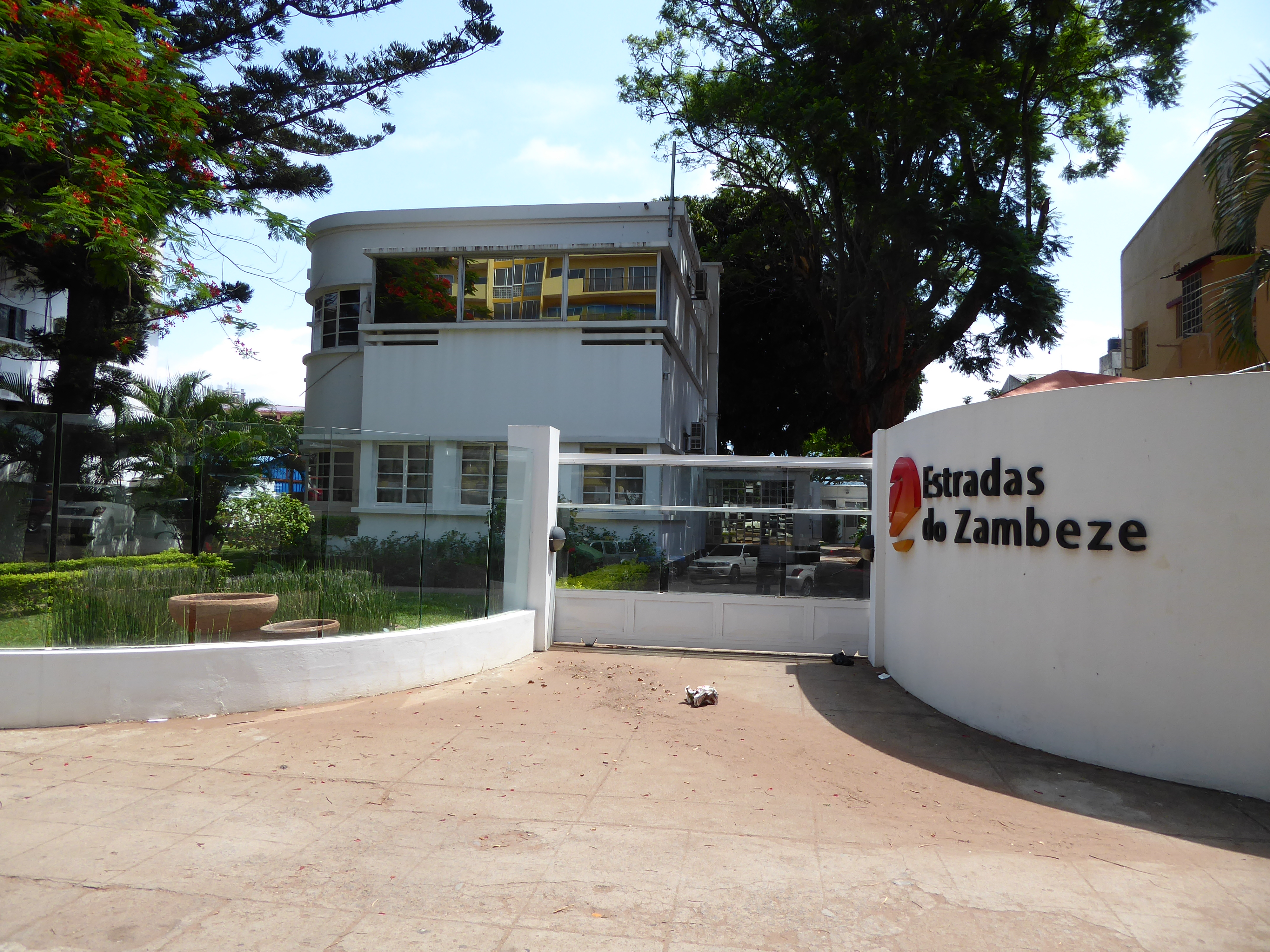 Estradas do Zambeze office, Maputo, Mozambique